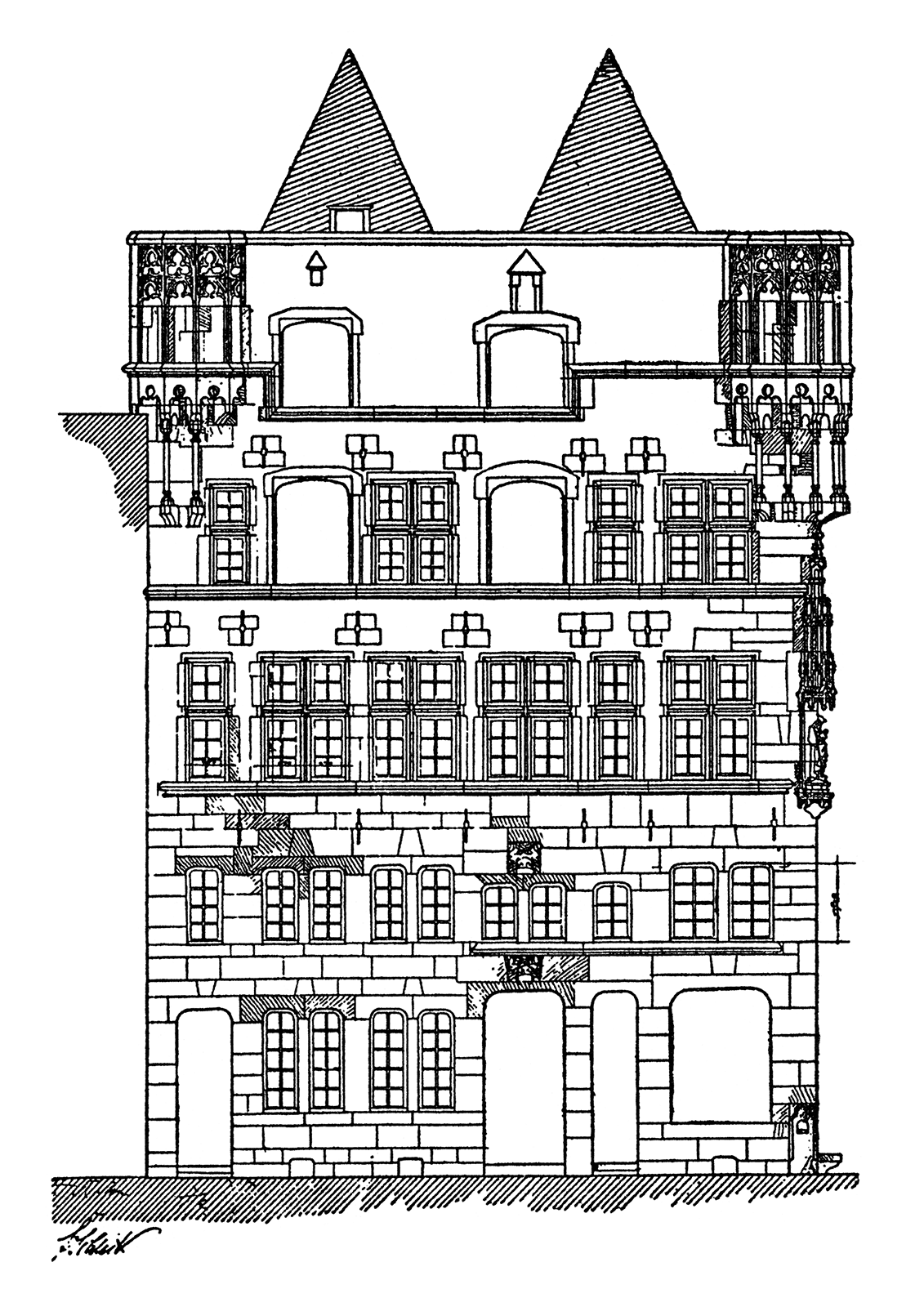 Cologne: House Saaleck (Unter Taschenmacher 15/17), elevation of the facade